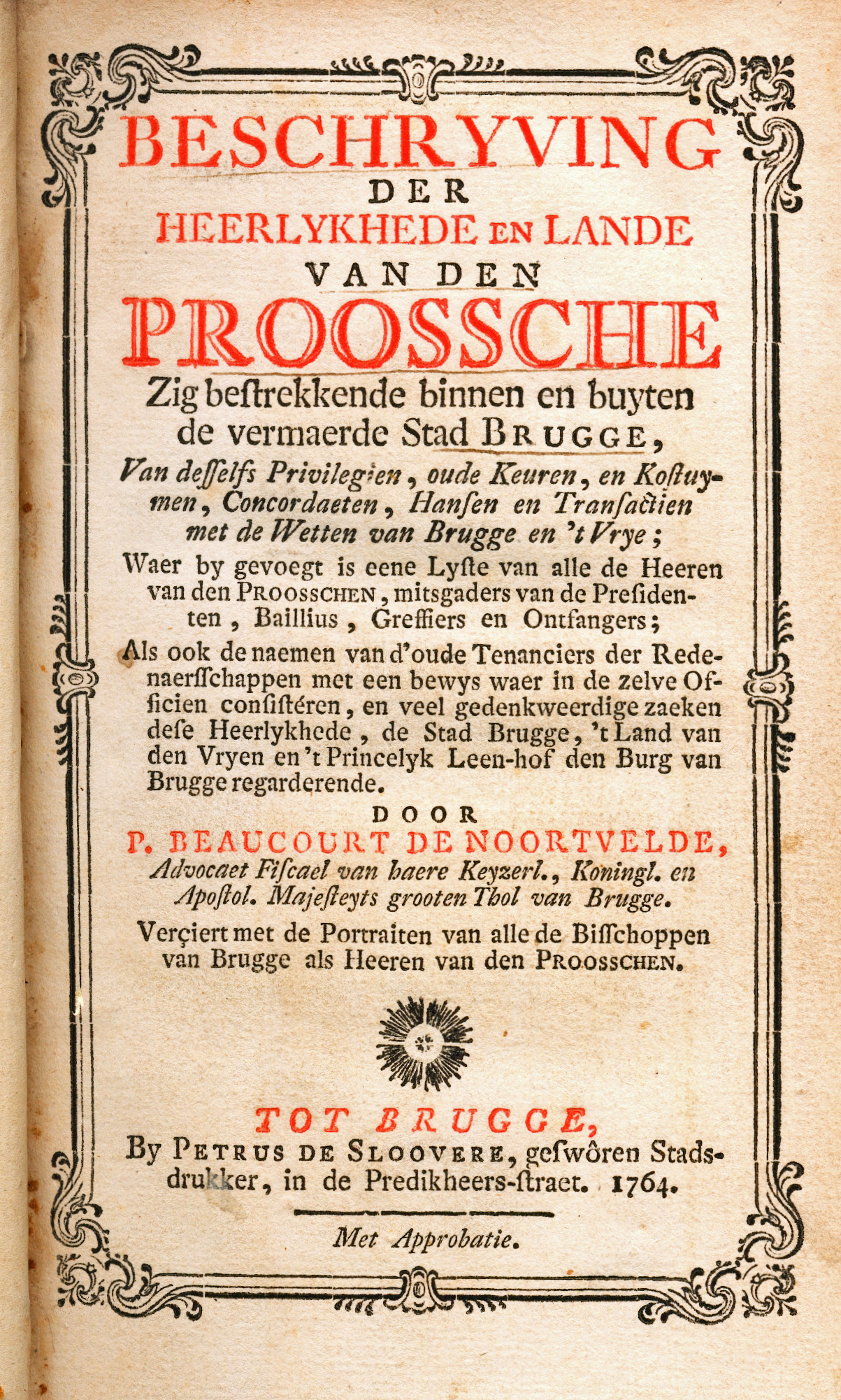 Patrice Beaucourt de Noortvelde, Beschryving der heerlykhede en lande van den Proossche zig bestrekkende binnen en buyten de vermaerde Stad Brugge (Bruges, 1764): title page of the book